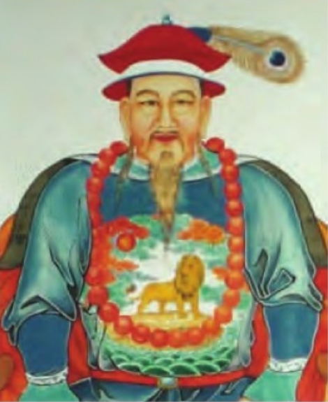 a picture of Lin Zhengyang Qing